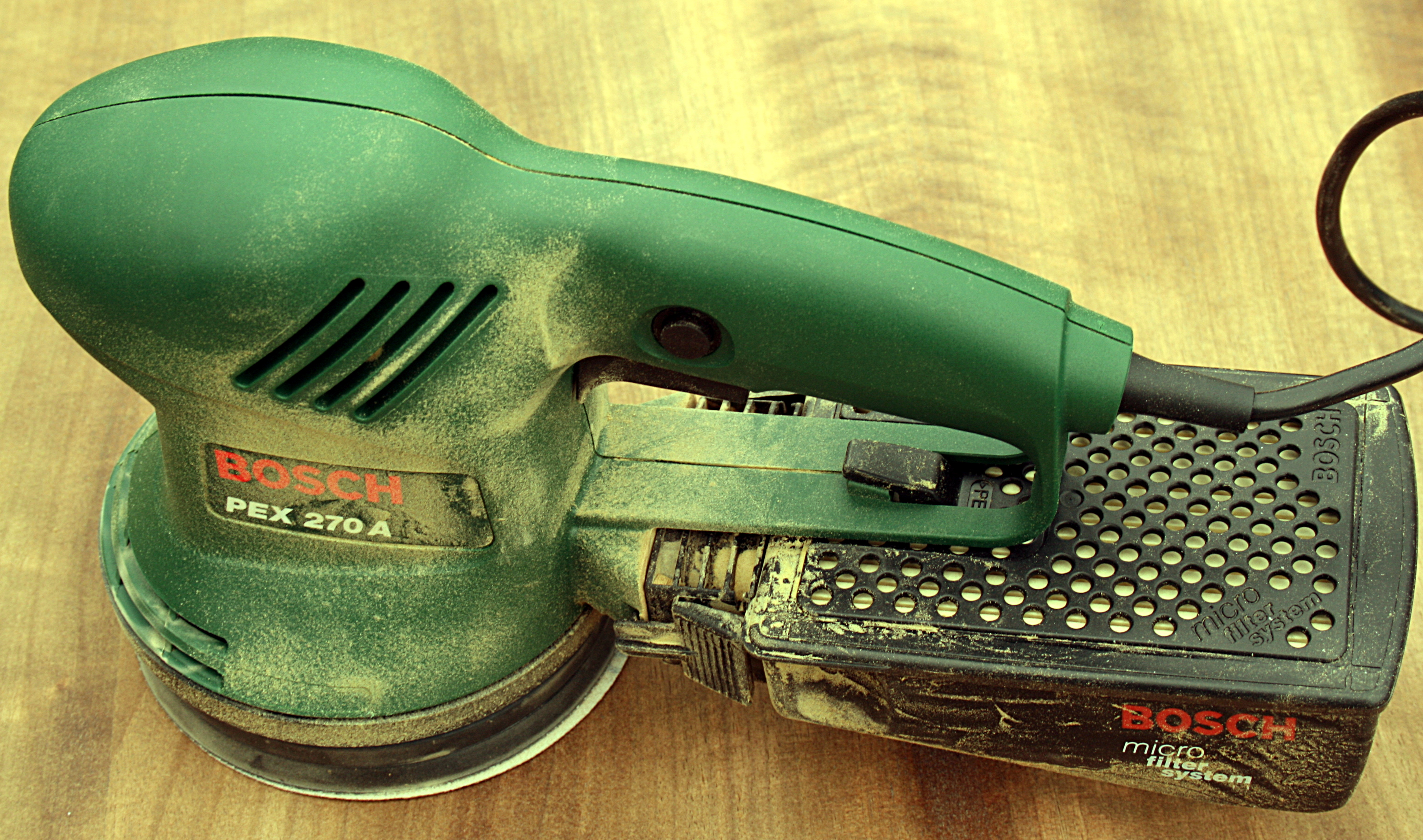 Random Orbit Sander